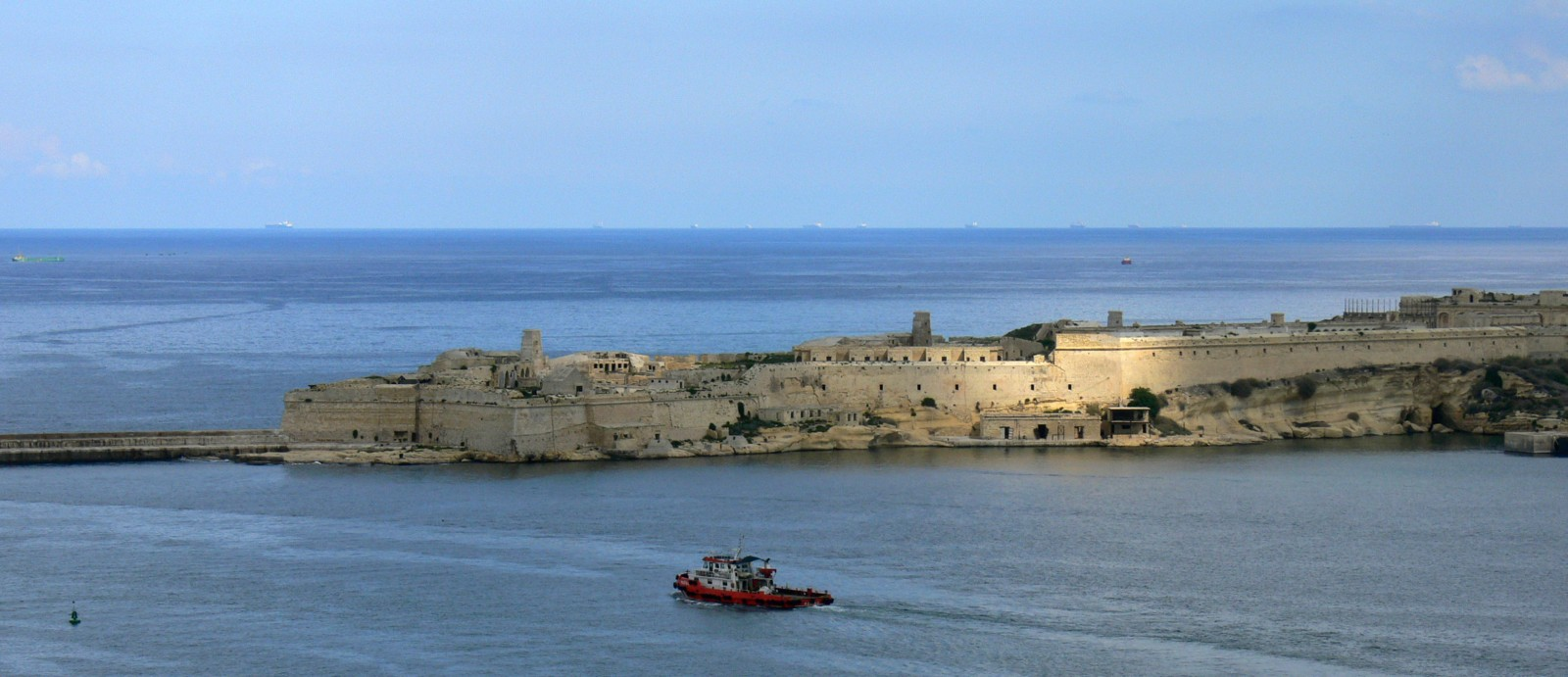 Fort Ricasoli (Kalkara, Malta) seen from Barakka Gardens, Valletta